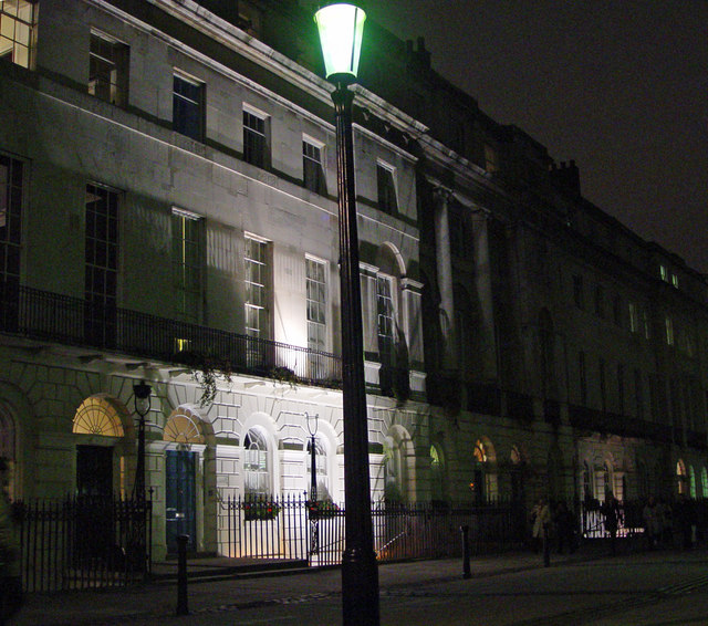 Fitzroy Square, London This night-time photograph captures the (evening) feel of the Edwardian terraces which feature so often in the London architecture.